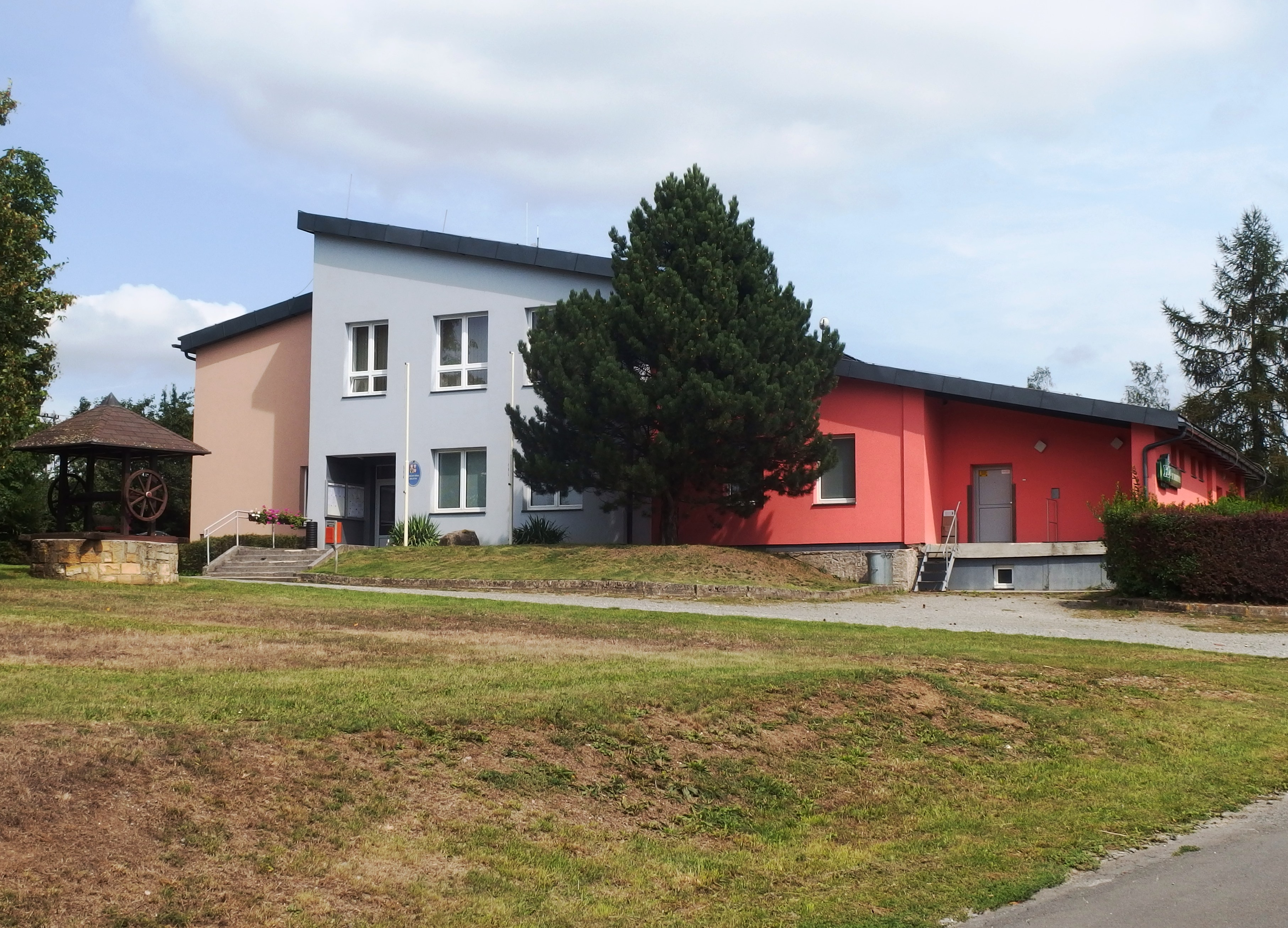 Maletín, Šumperk District, Czechia.